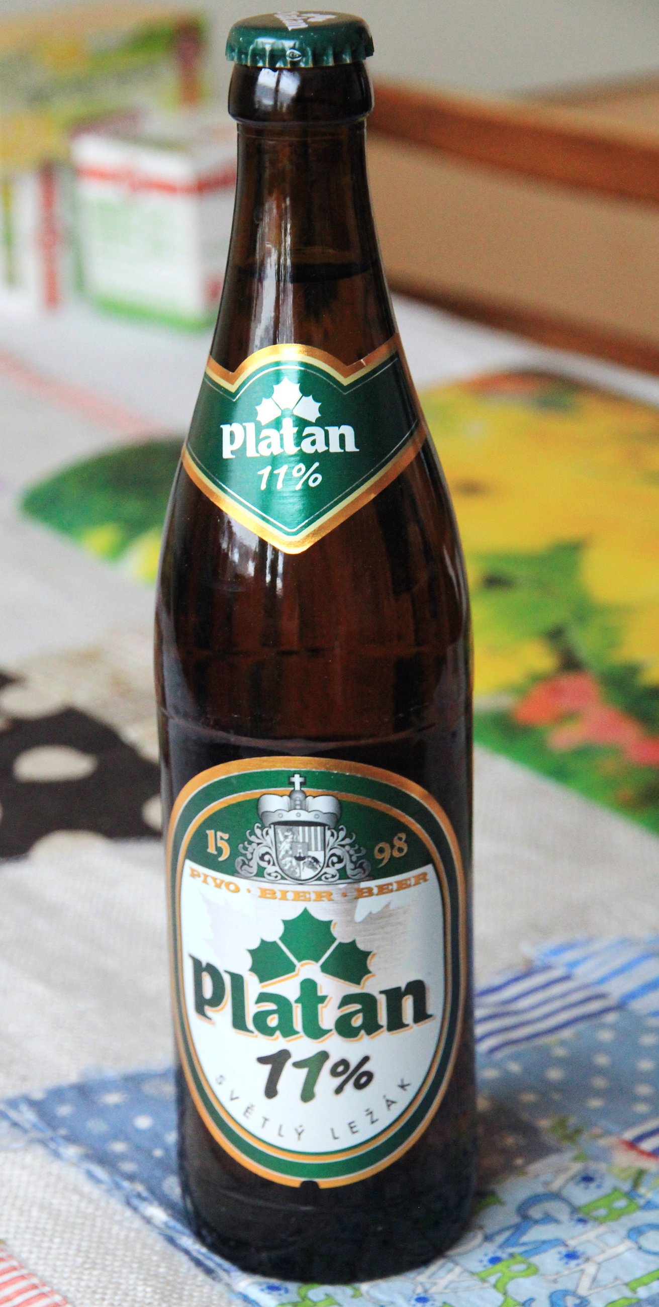 Bottle of Czech beer Platan 11° from brewery Protivín in small south Bohemian town Protivín, Czech Republic